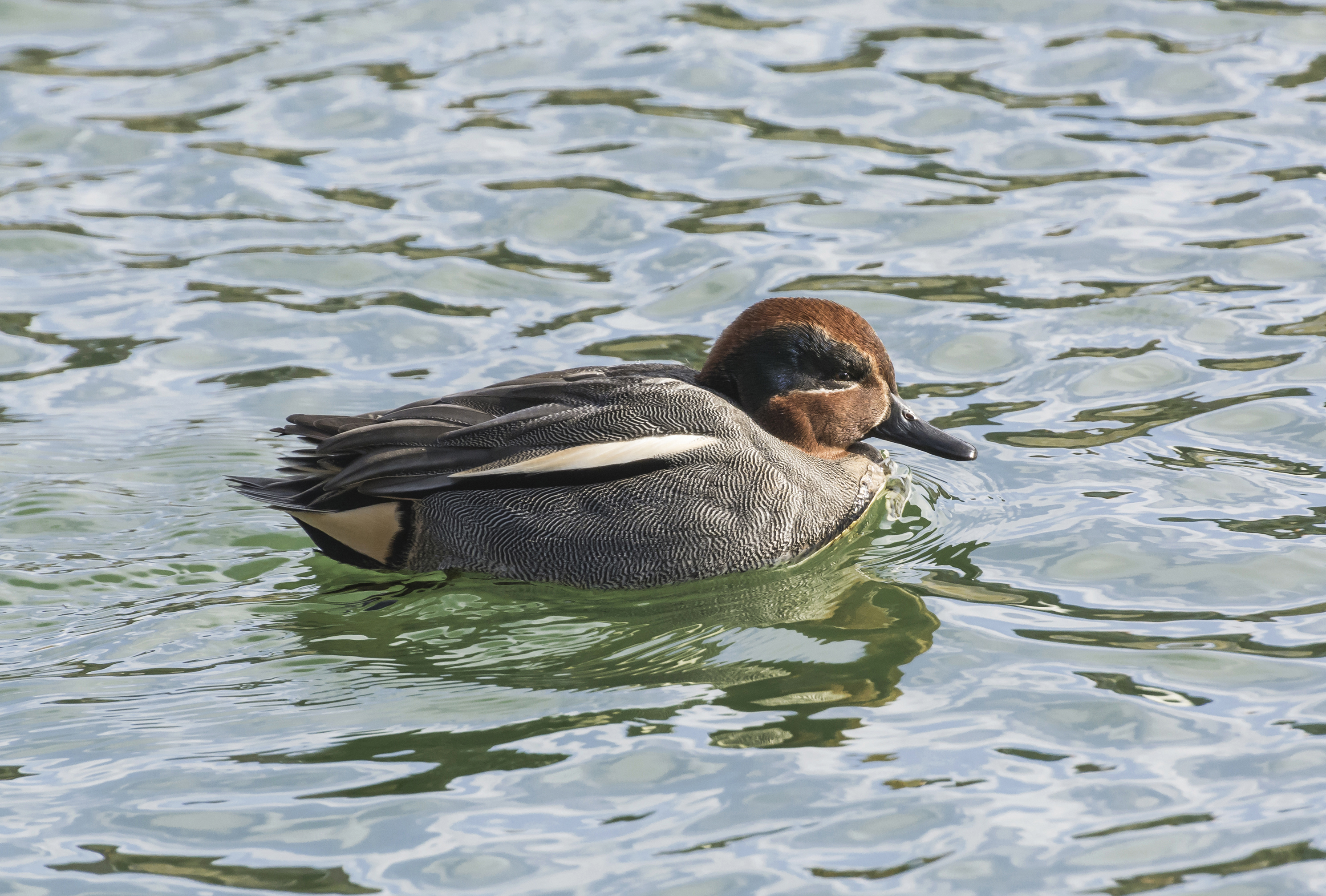 Eurasian teal (Anas crecca) on the water (male juvenile), Nysa Kłodzka in Kłodzko